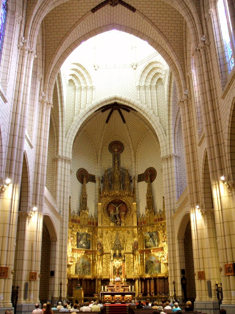 Iglesia de Santa Cruz, en Madrid